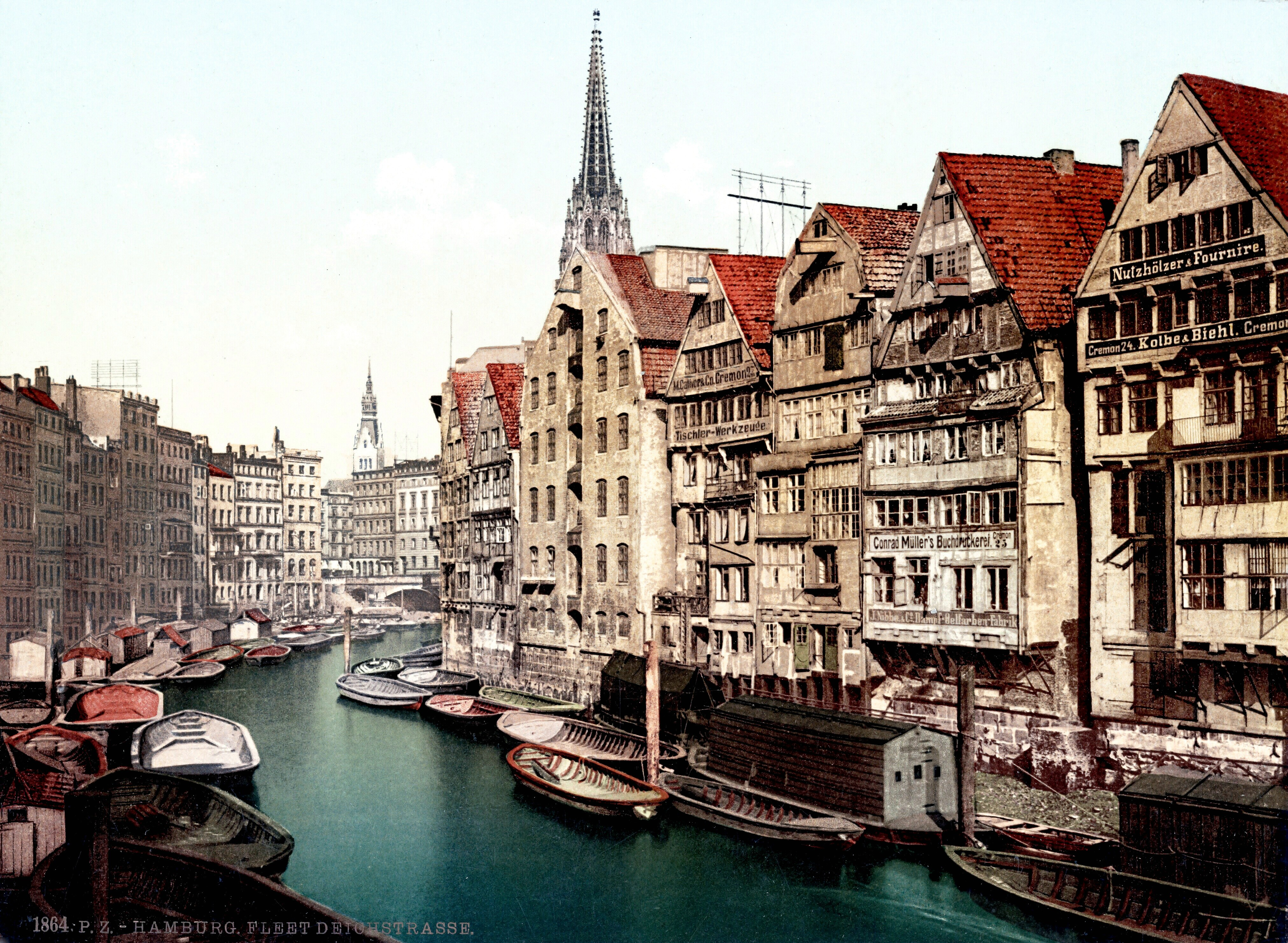 Title: Hamburg. Fleet Deichstrasse Physical description: 1 print